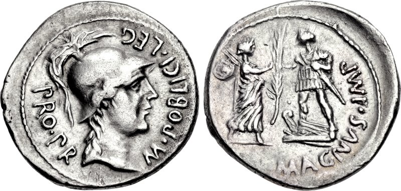 Cnaeus Pompey Jr. Summer 46-Spring 45 BC. AR Denarius (19mm, 3.78 g, 6h). Corduba mint. Marcus Poblicius, legatus pro praetore. Helmeted head of Roma right within border of dots / Hispania standing right, shield on her back, holding two spears over shoulder and presenting palm frond to Pompeian soldier standing left on prow, armed with sword. Crawford 469/1e; CRI 48a; Sydenham 1035a; RSC 1a (Pompey the Great). Good VF, toned.